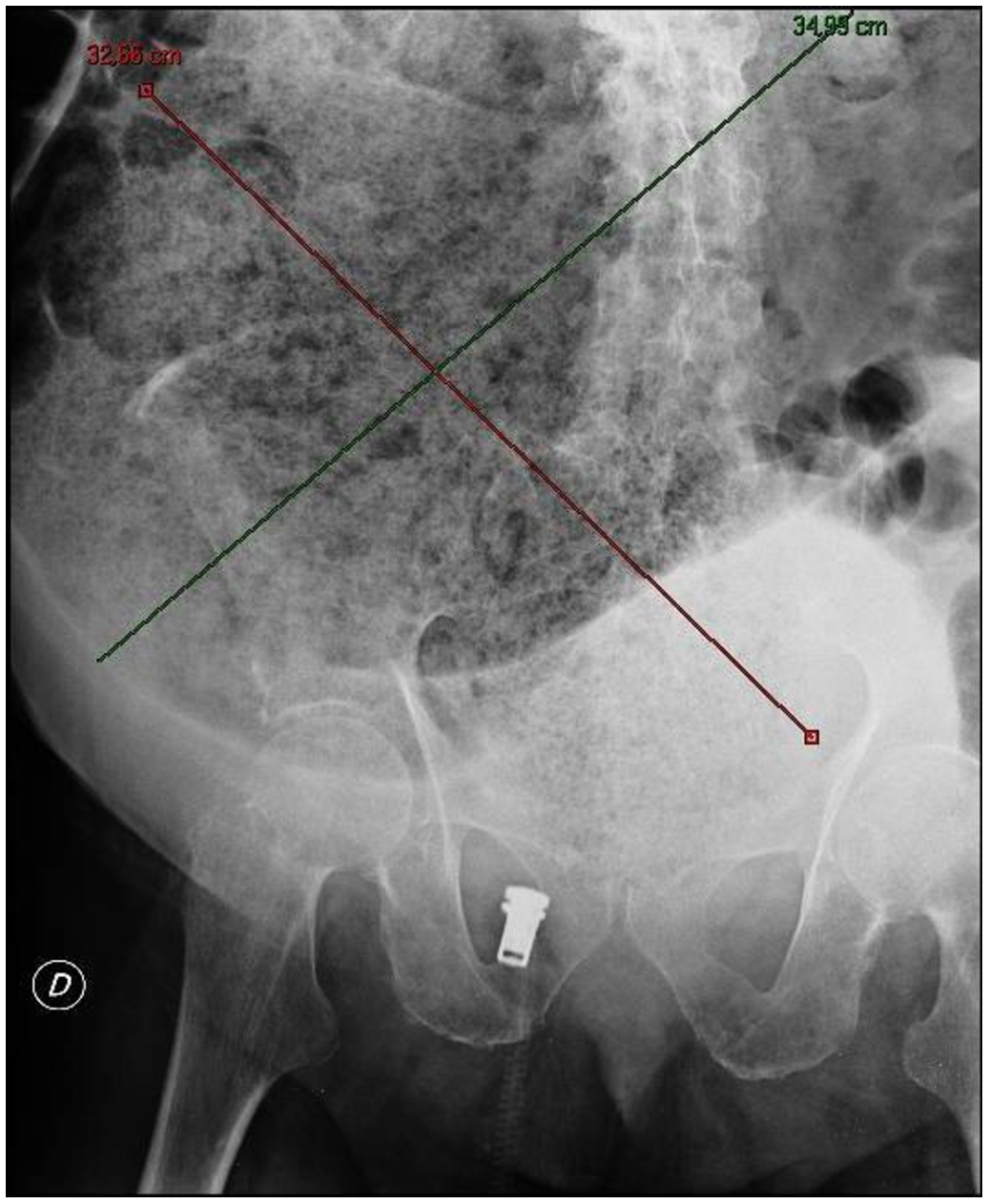 Figure 2. Initial plain abdominal X-ray done in emergency room showing a huge faecal impaction extending from the pelvis upwards to the left subphrenic space and from the left towards the right flank, measuring over 40 cm in length and 33 cm in width.